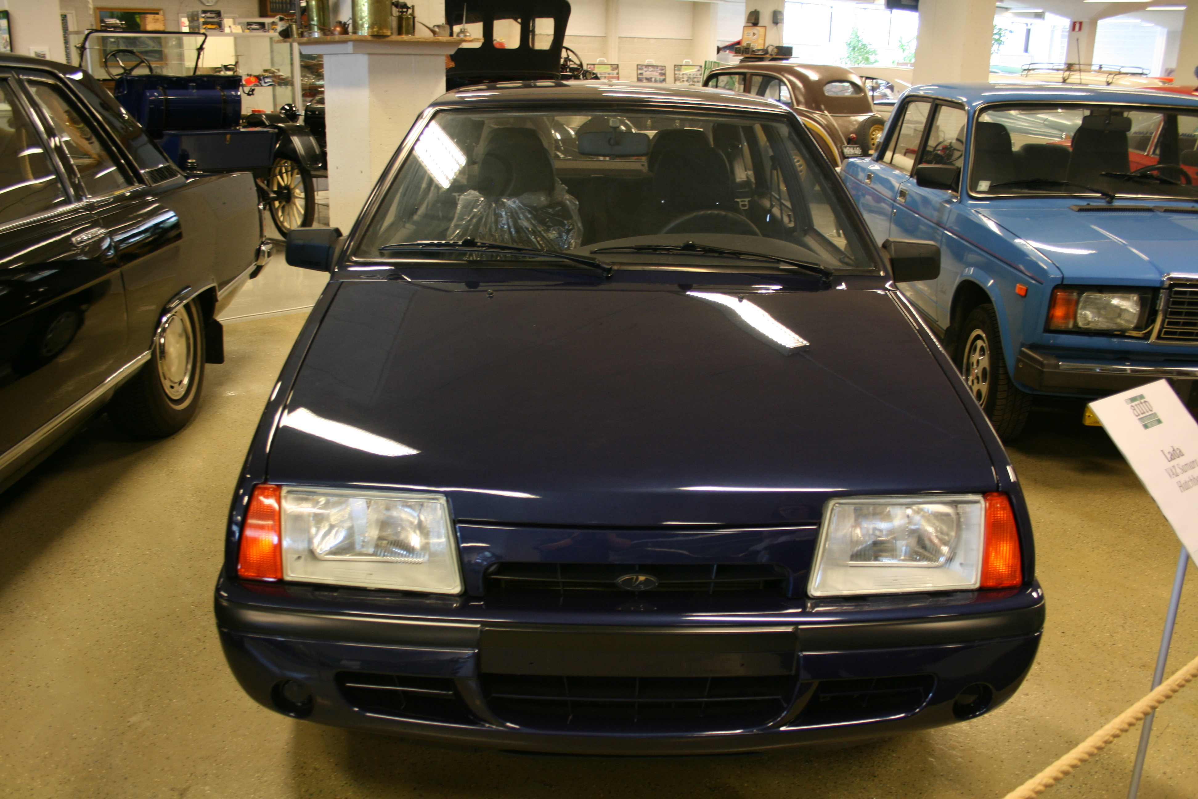 Lada Samara 21093 Baltic at the Car and Communication Museum in Finland